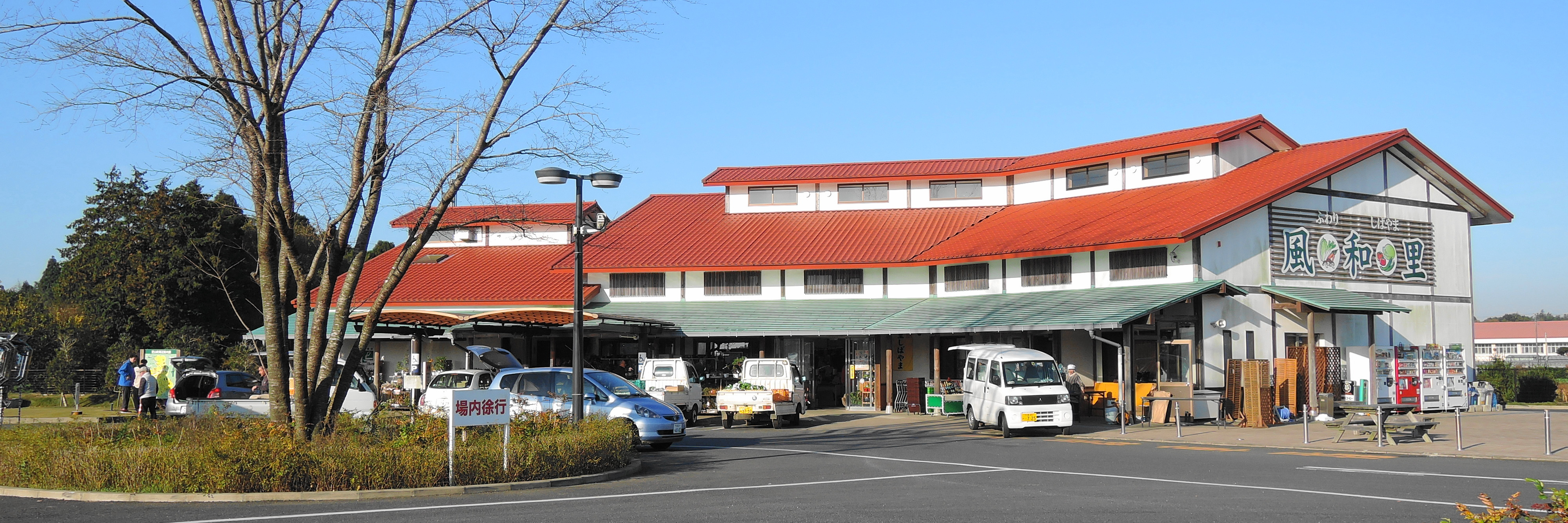 Roadside station Fuwari Shibayama,Chiba prefecture,Japan